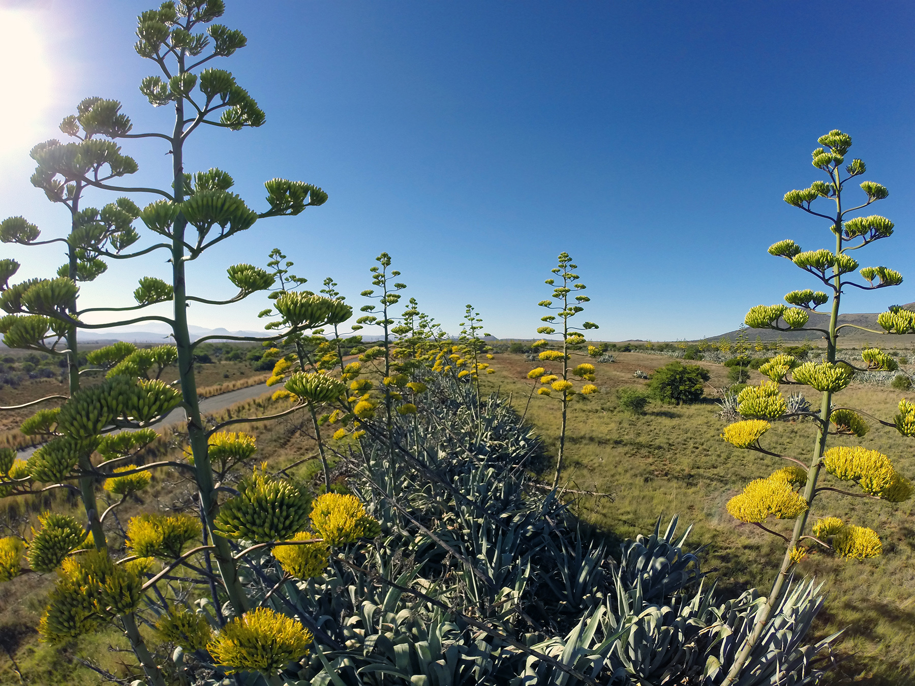 The Garing Boom or Agave is quiet common in the Karoo